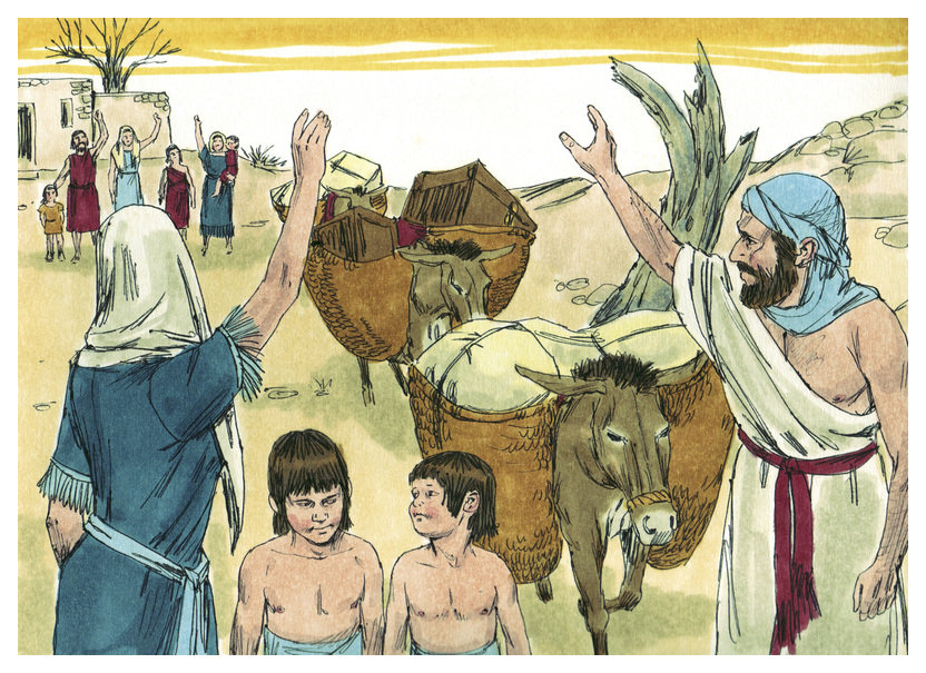 Biblical illustration of Book of Ruth Chapter 1